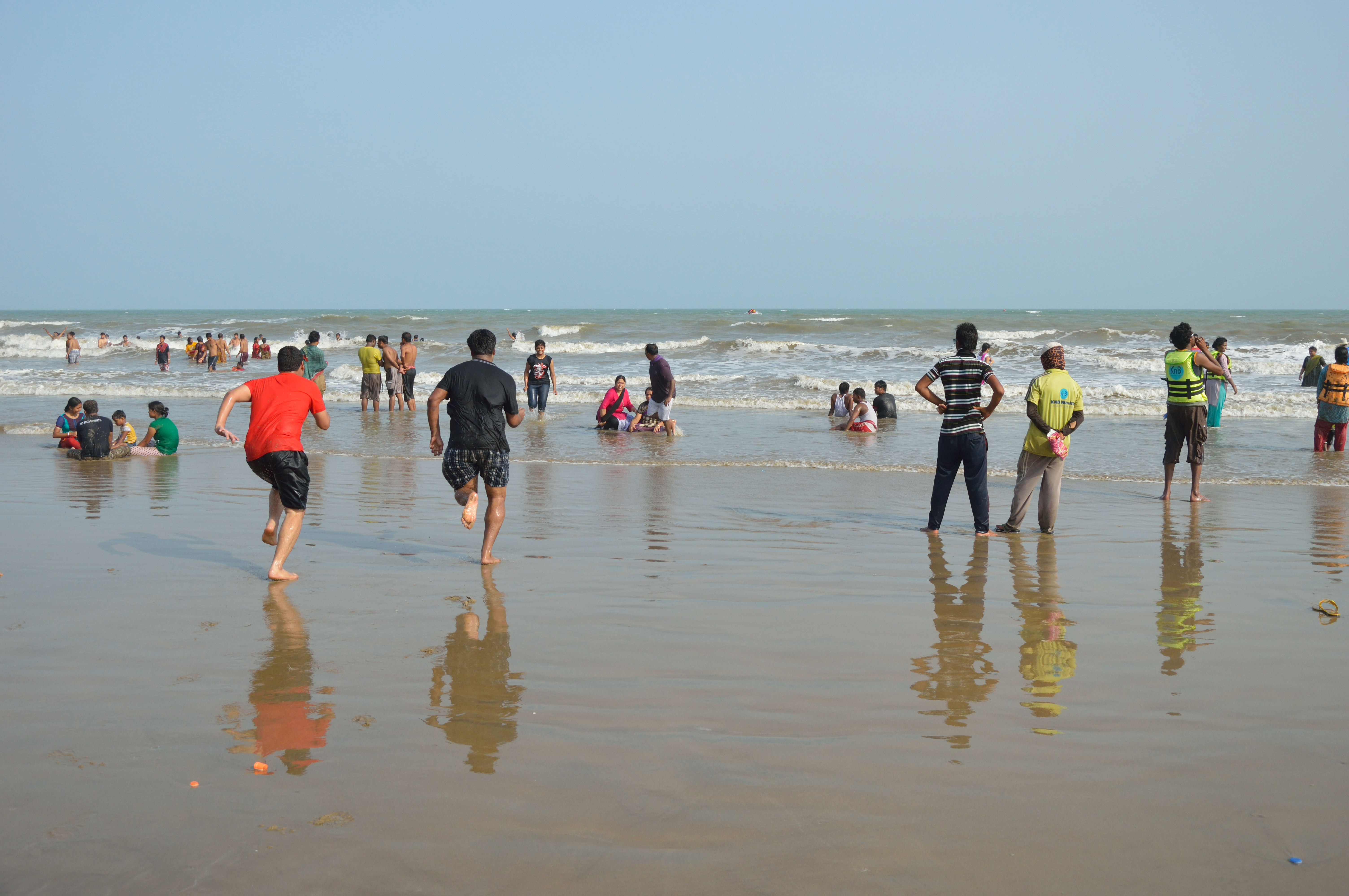 Photographed in Purba Medinipur, West Bengal.